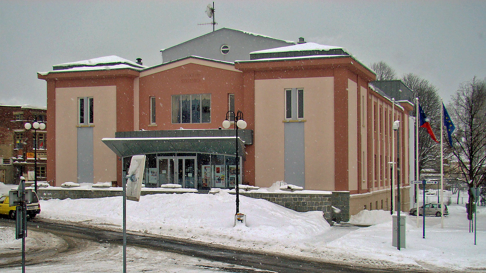 Bisley into Rumburk.